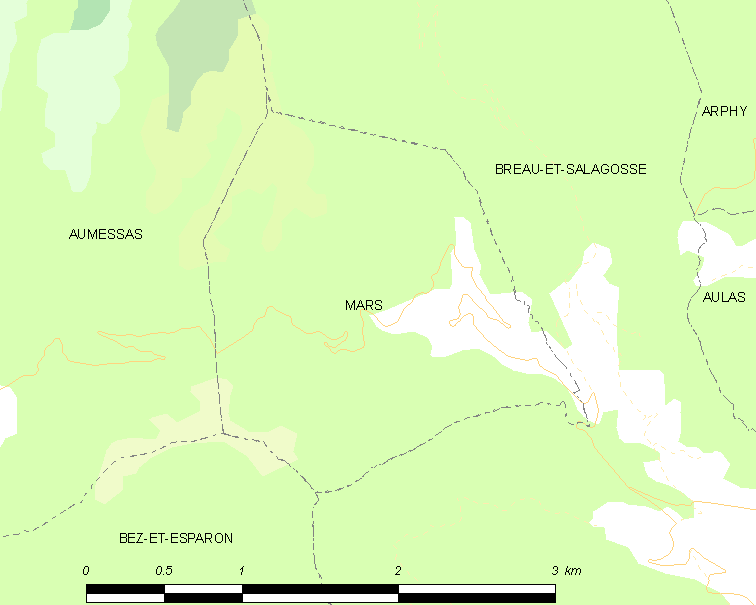 Map commune FR insee code 30157.png - Mars (Gard)